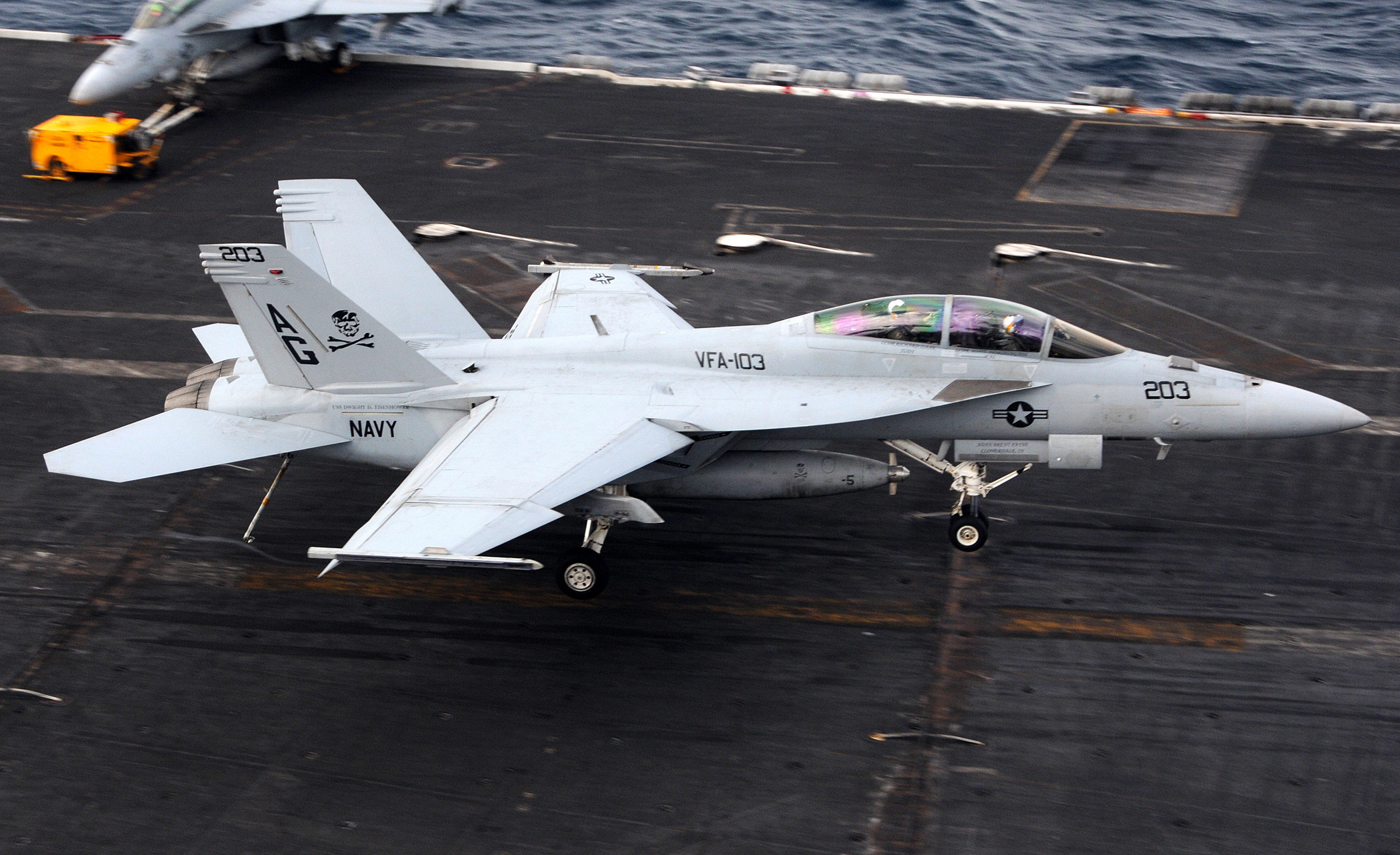 NORTH ARABIAN SEA (June 3, 2010) An F/A-18F Super Hornet assigned to the Jolly Rogers of Strike Fighter Squadron (VFA) 103 prepares to catch the arresting cable on the flight deck of the aircraft carrier USS Dwight D. Eisenhower (CVN 69). The Eisenhower Carrier Strike Group is deployed as part of an on-going rotation of forward-deployed forces to support maritime security operations in the U.S. 5th Fleet area of responsibility. (U.S. Navy photo by Mass Communication Specialist 3rd Class Chad R. Erdmann/Released)